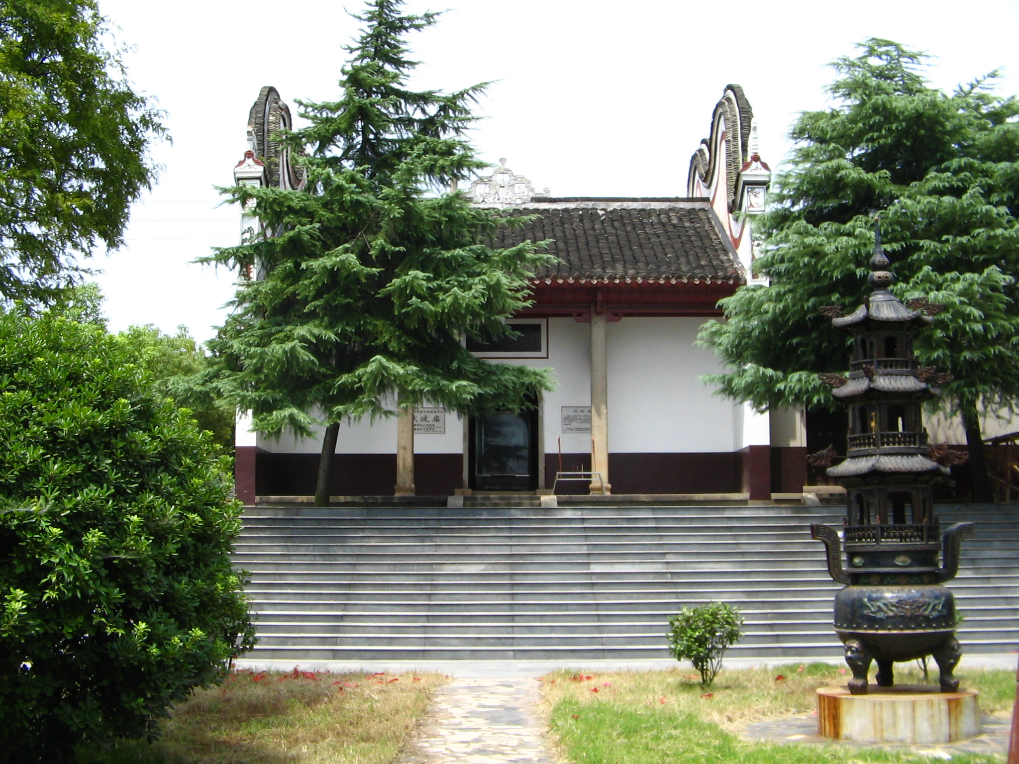 Front Image of FuBoTemple,ZhuZhou,HuNan,CN